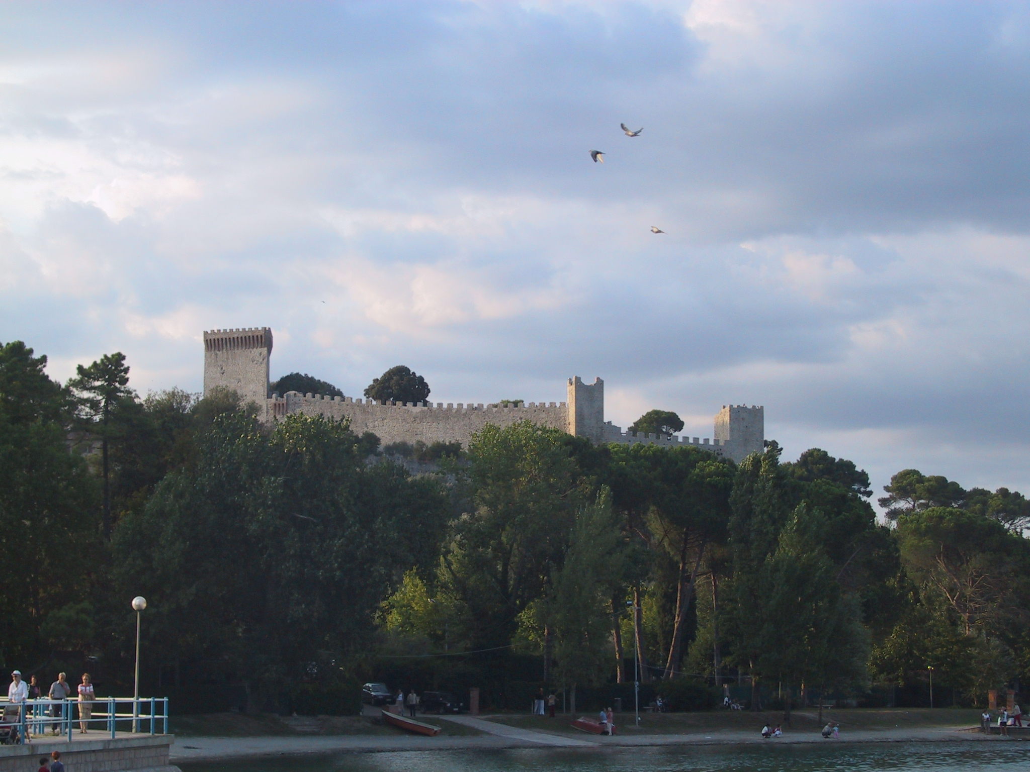 The Fortress in Castiglione del Lago, Umbria, Italy